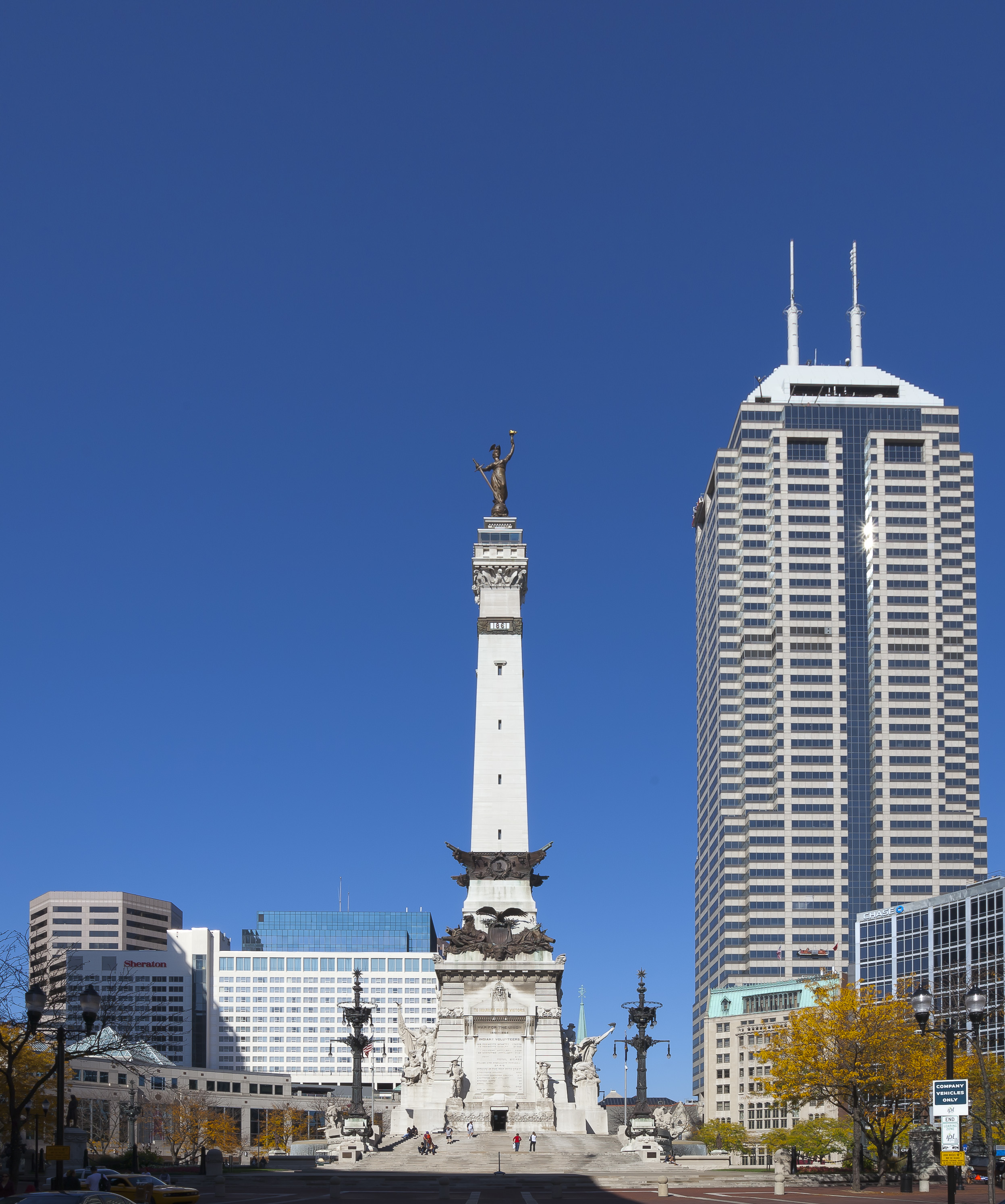 Soldiers' and Sailors' Monument, Indianapolis, USA